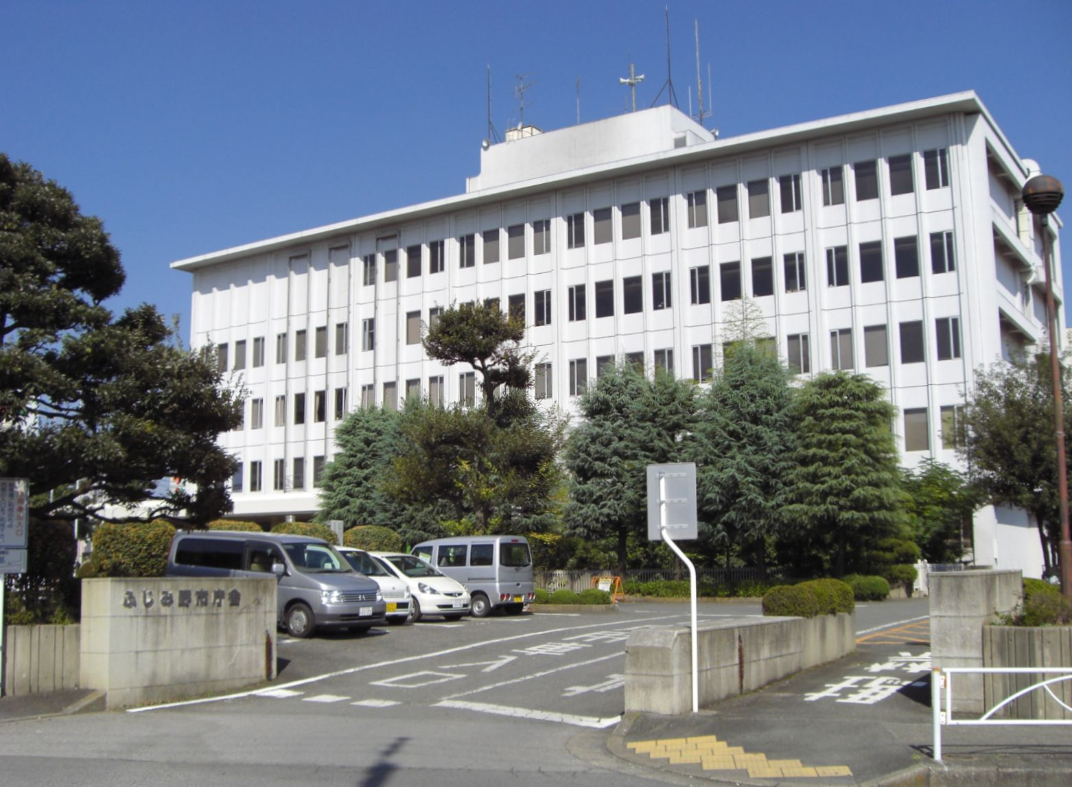 Fujimino City Hall, Fujimino, Saitama, Japan